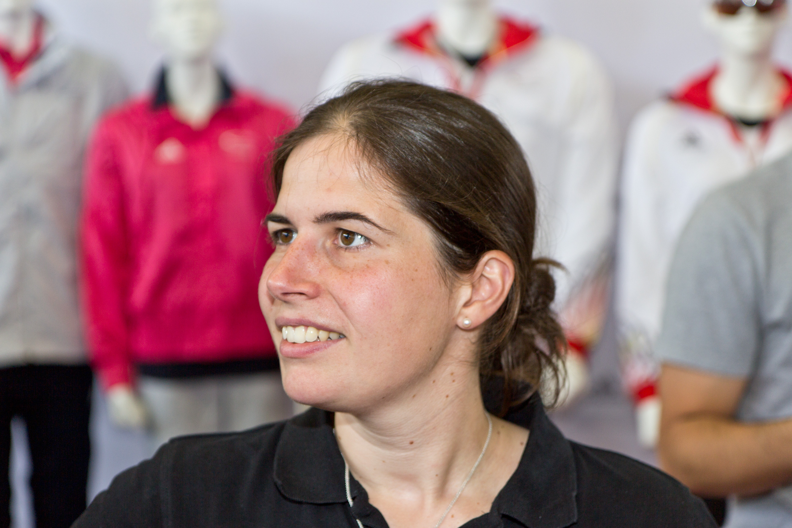 Outfitting the Olympic team of Germany 2012